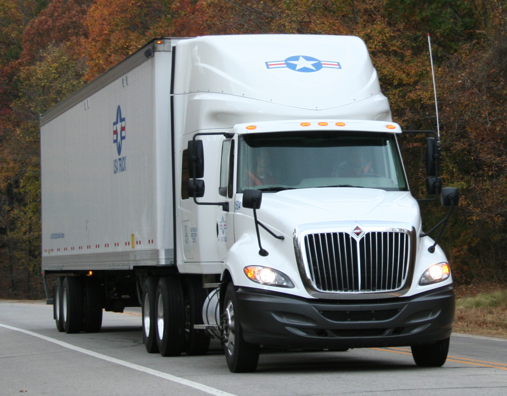 USA Truck driving down the road